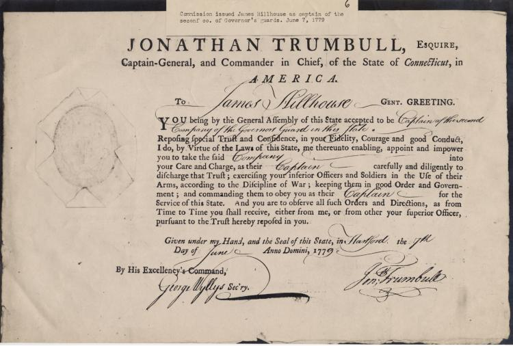 Commission for James Hillhouse for the Governor's Foot Guard, signed by Jonathan Trumbull, Esq., Capt.-General and Commander-in-Chief of the State of Connecticut. Image courtesy of the Hillhouse family papers, Yale University Manuscripts & Archives Digital Images Database.